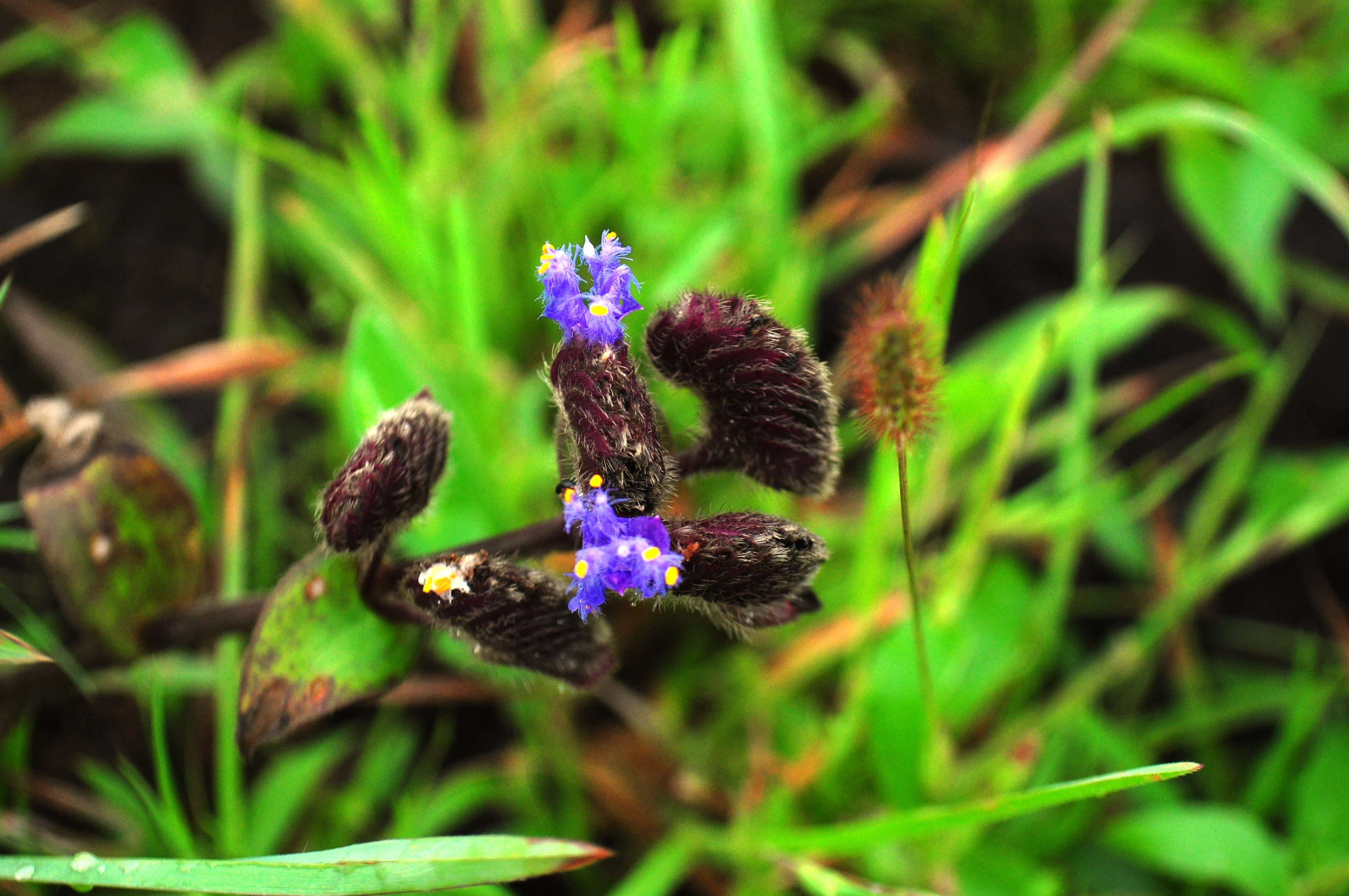 Aabhali flower (Cyanotis tuberosa) at Kaas Plateau